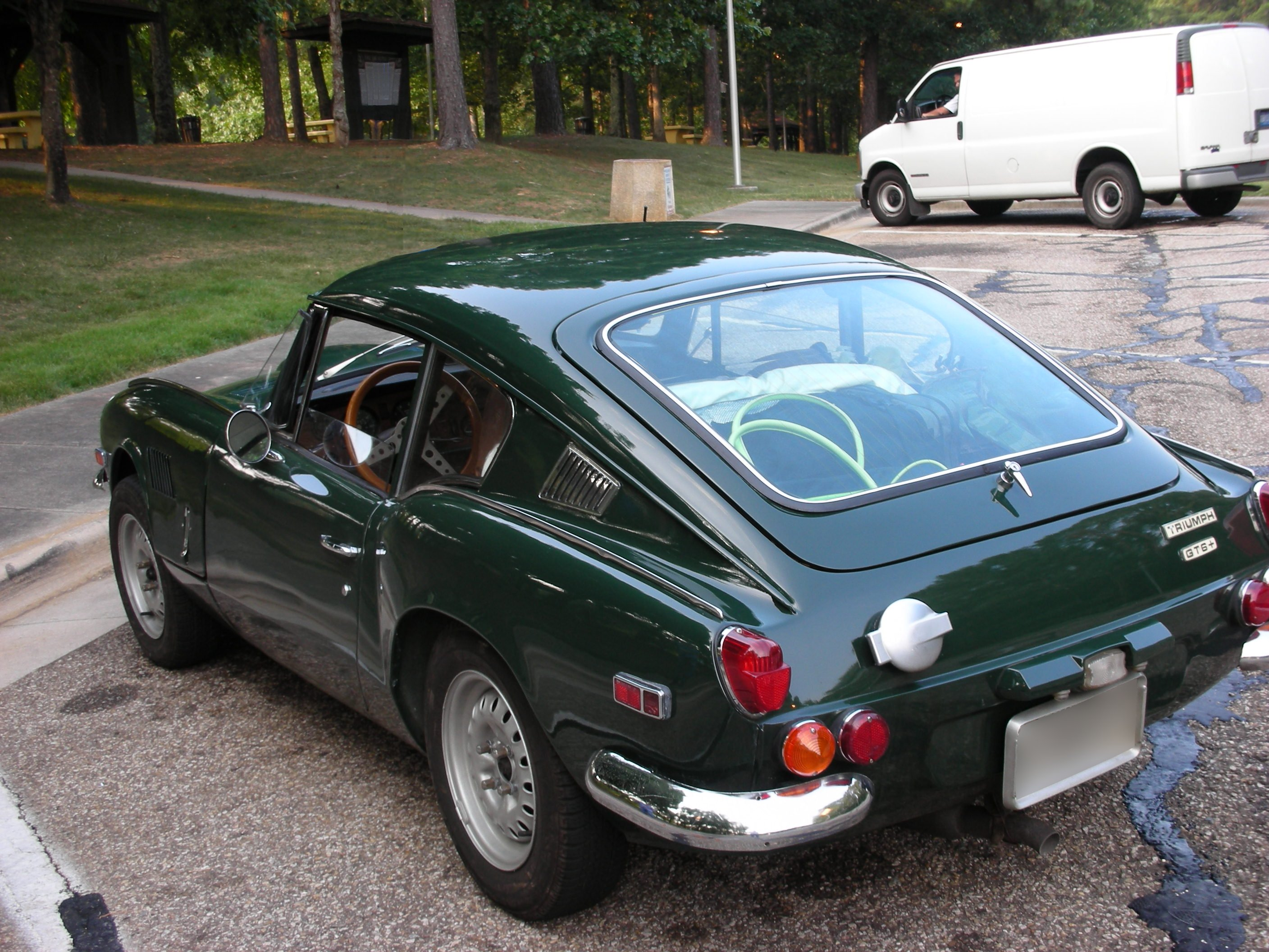 1970 GT6+ Mk II Note the difference in tail light design between the Mk II and III.